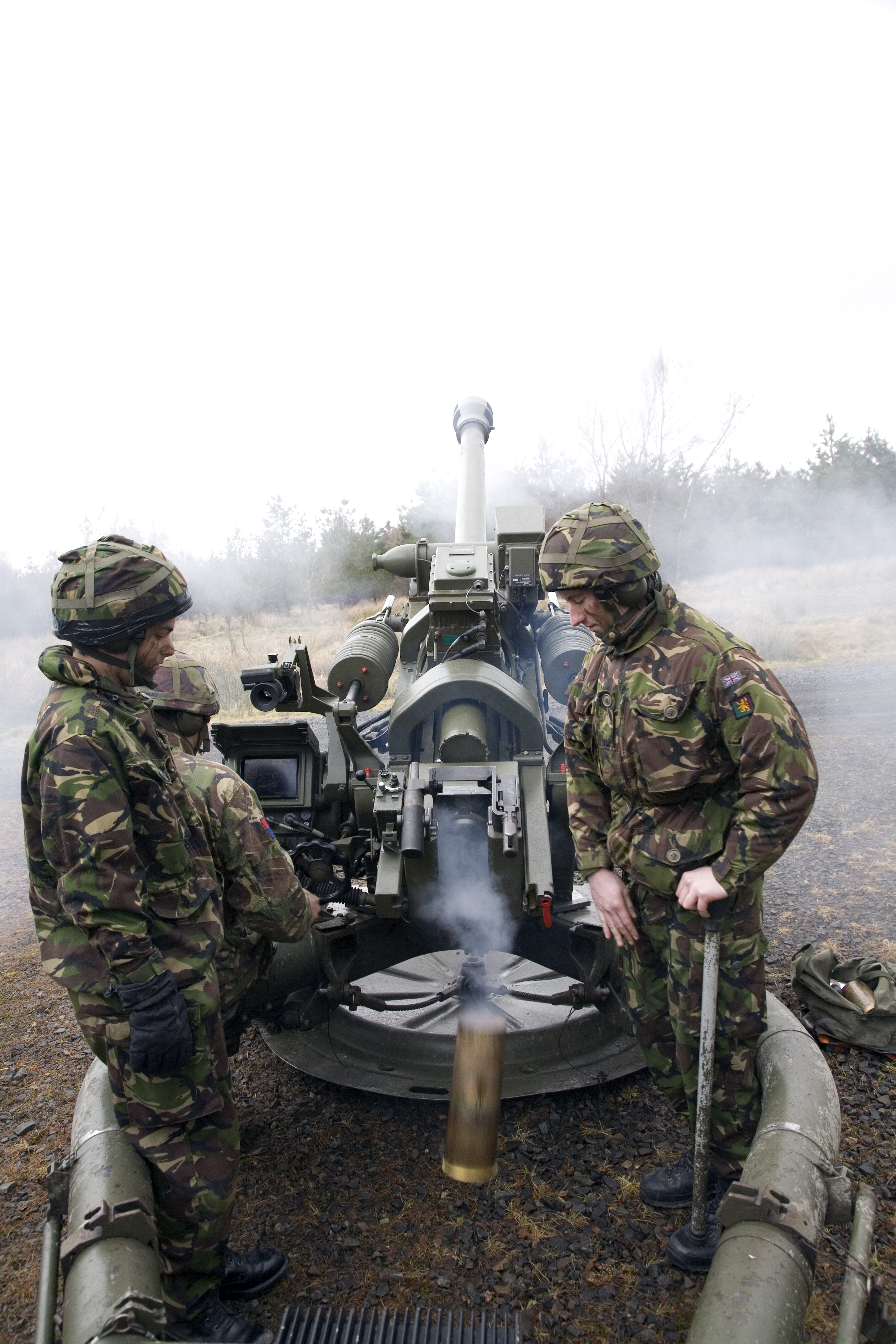 Gnr Brown opens the breech on the light Gun